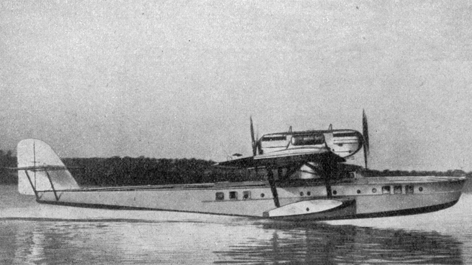 Dornier R2 Superwal photo from L'Année aéronautique 1926